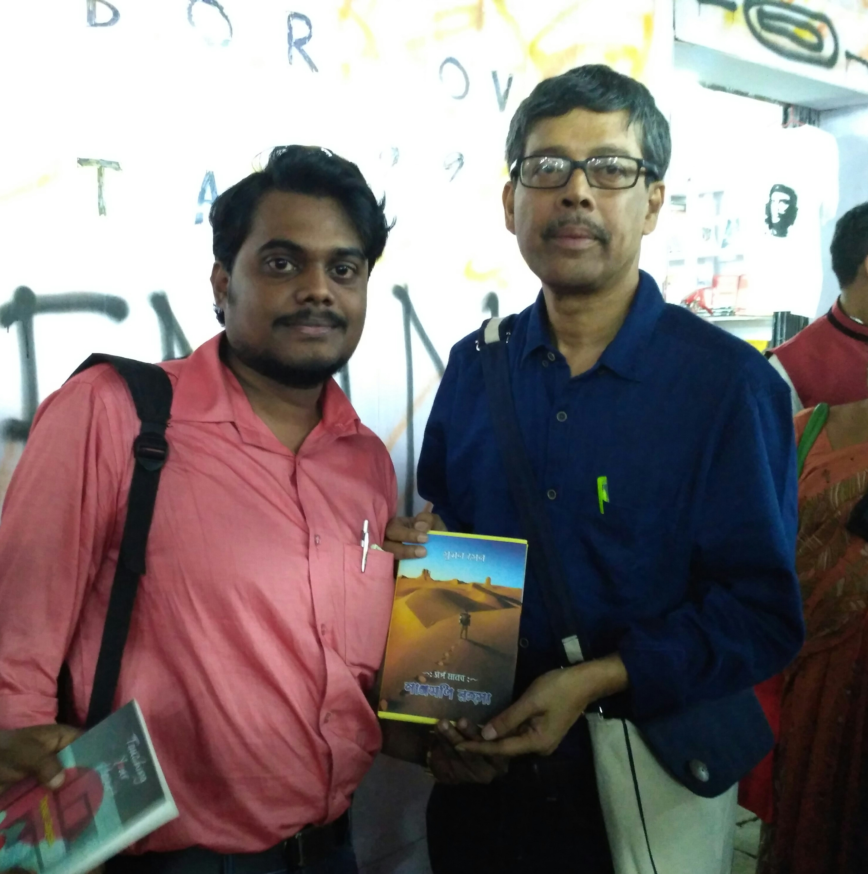 Pracheta gupta and suman sen